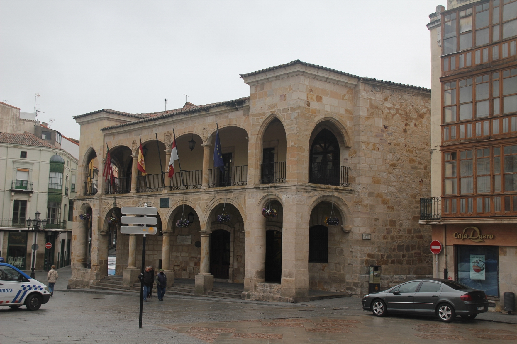 Zamora - Old Townhall